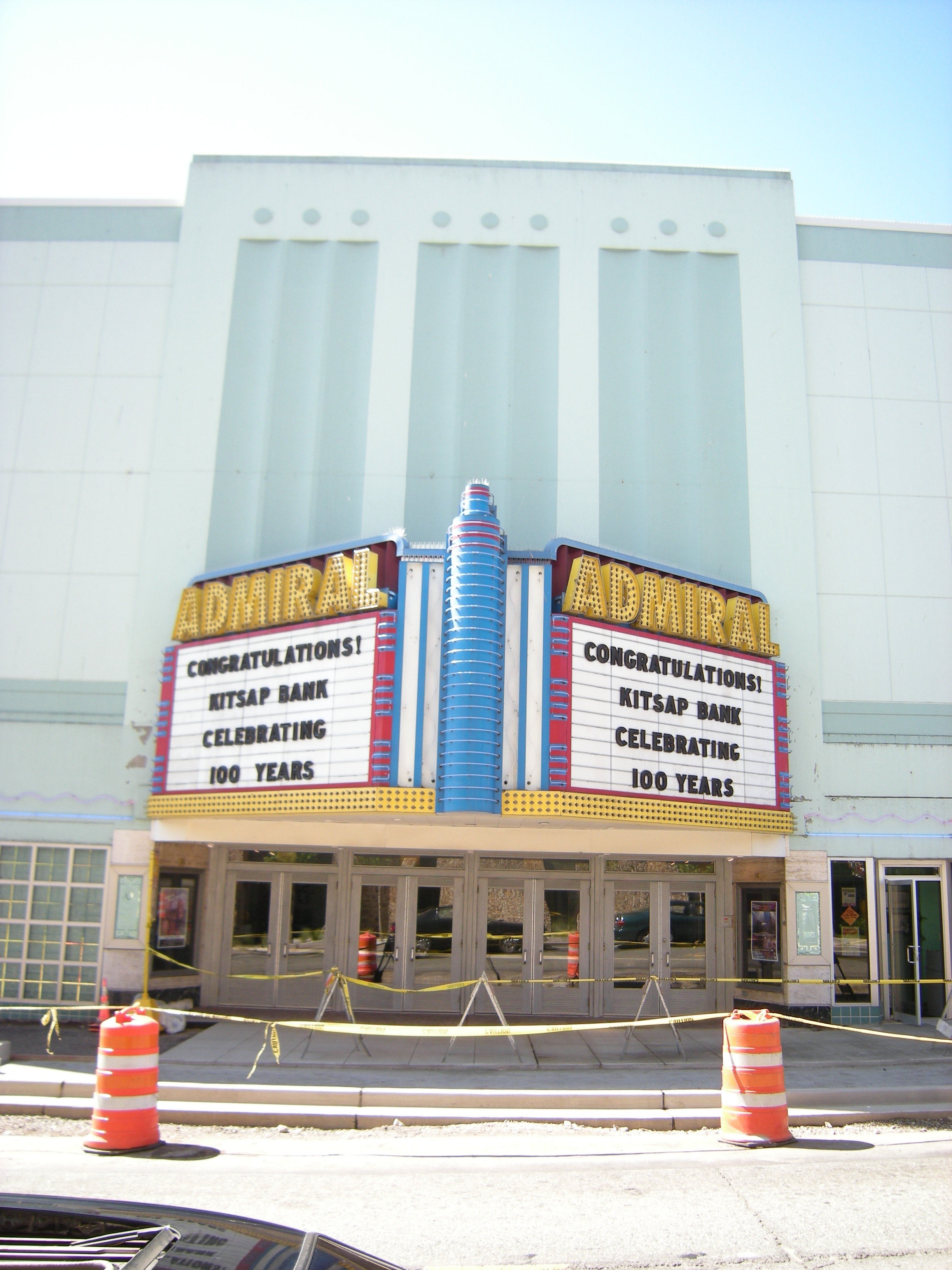 Admiral Theater, 515 Pacific Avenue Bremerton, Washington. A former cinema built in 1942, it now is used for a variety of performances and events.